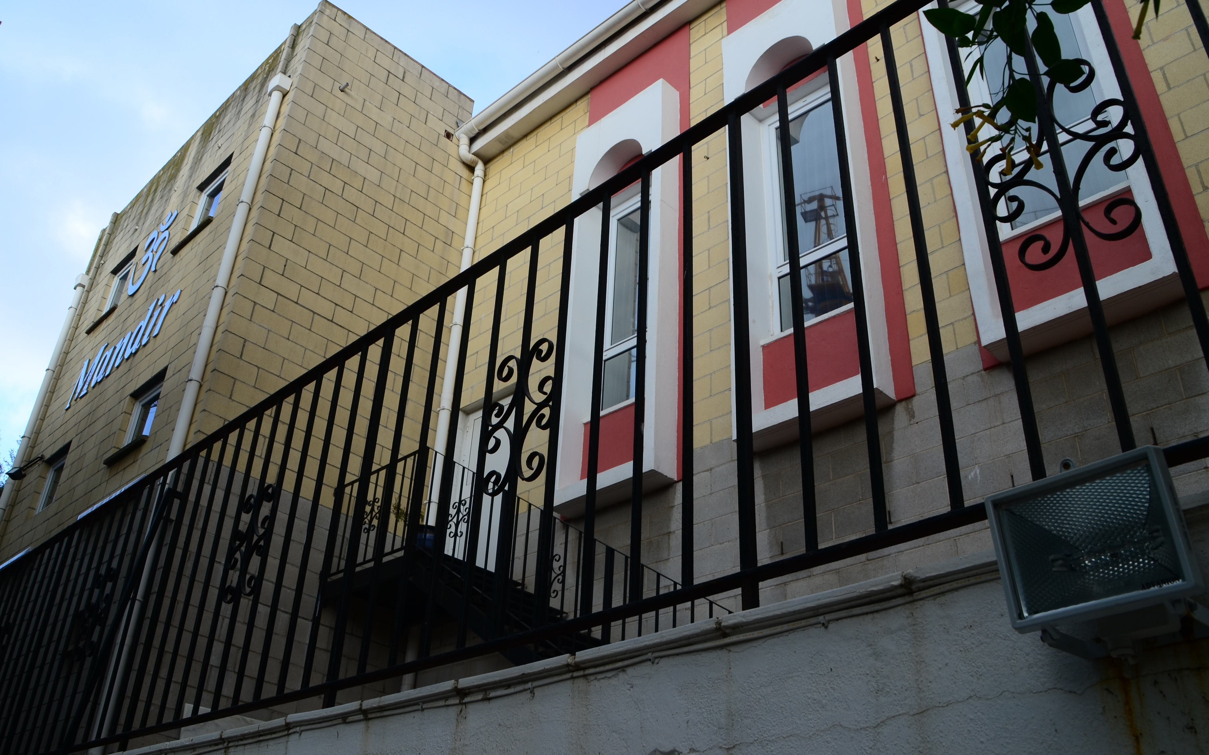 Gibraltar Hindu Temple